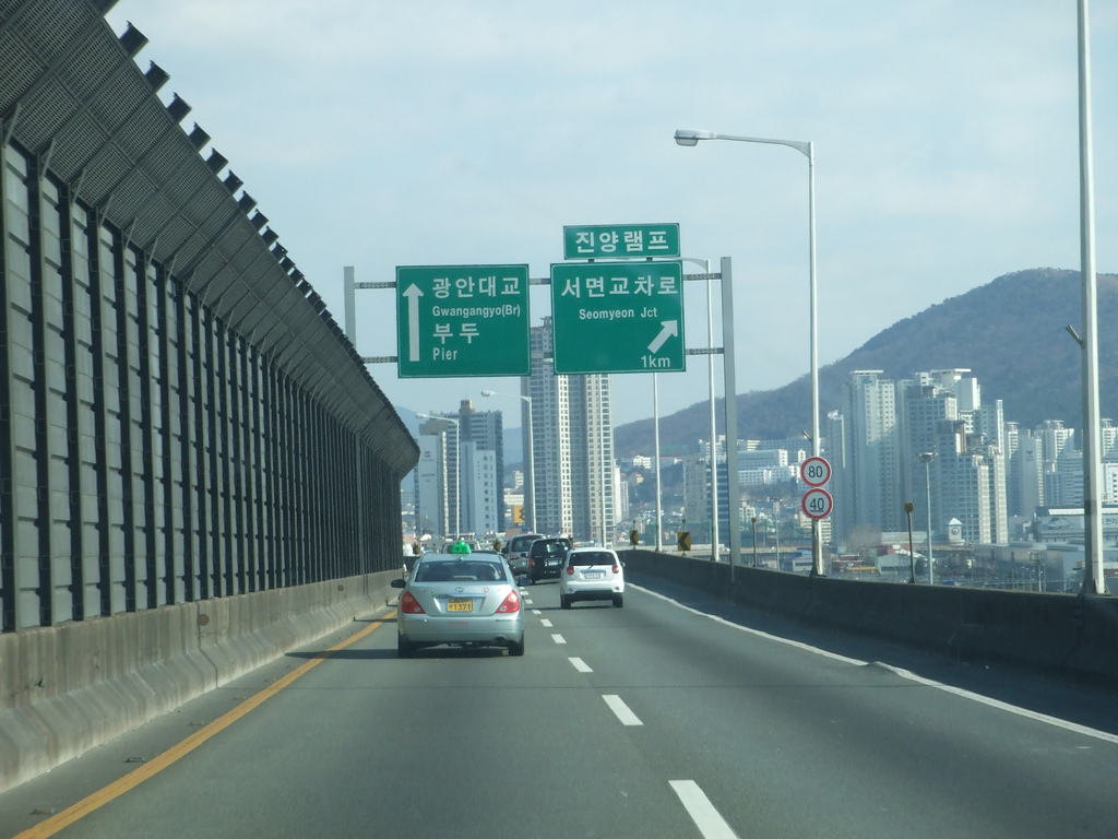 Dongseo Elevated Road in Busan, South Korea.